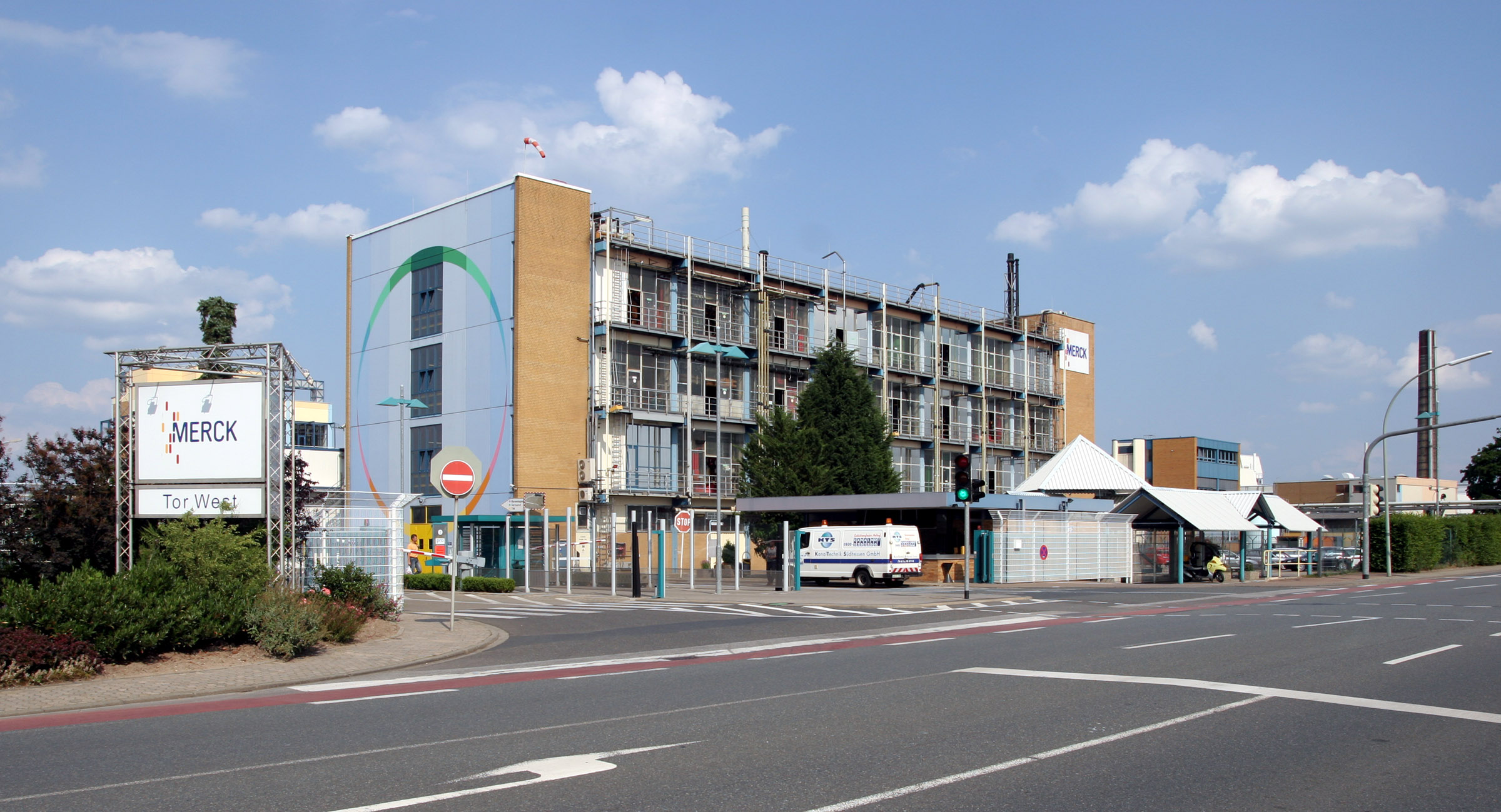 The Gernsheim plant of Merck KGaA in Hesse, Germany